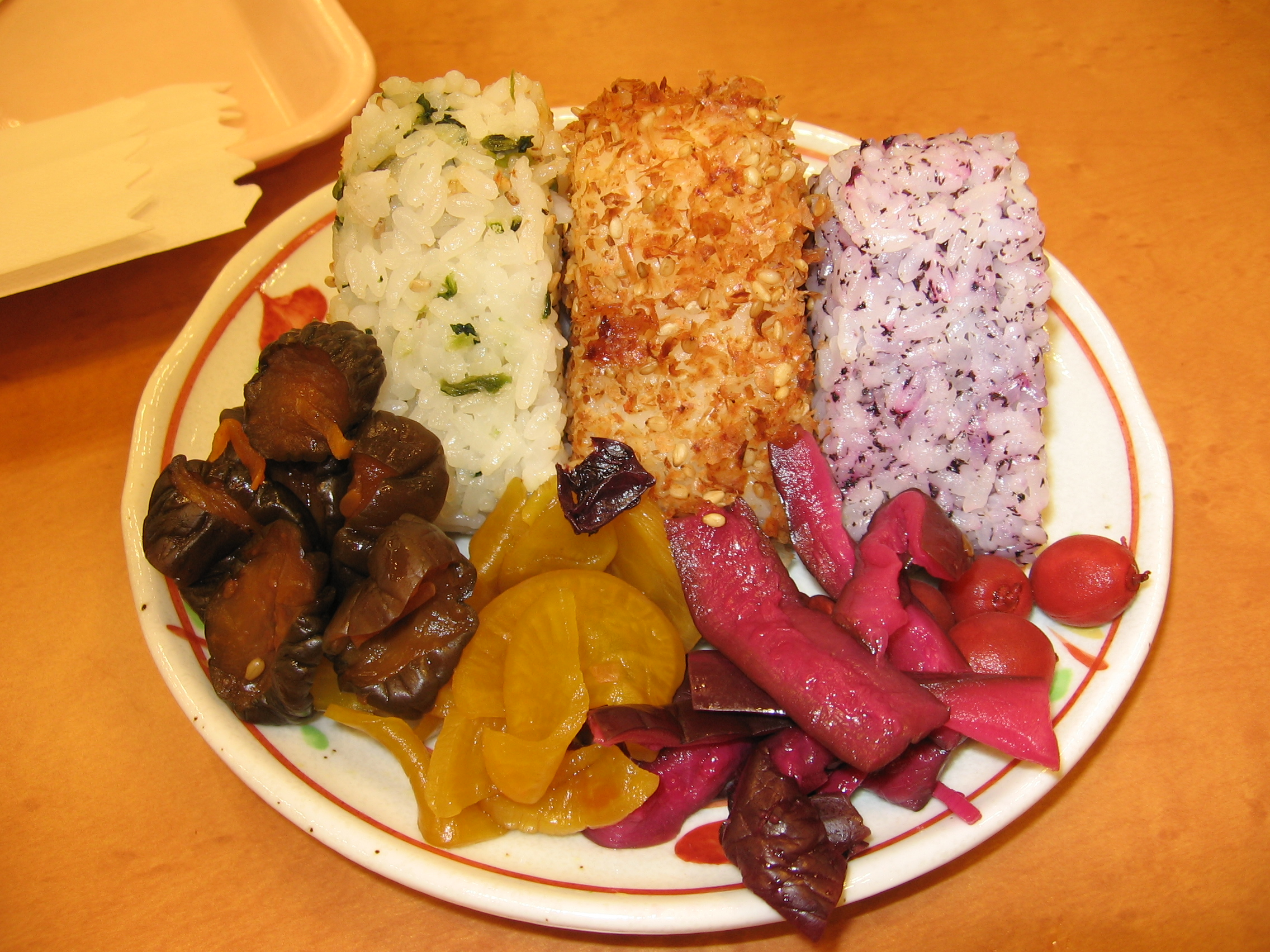 it's like I was in heaven. Can YOU name all of these pickled items?